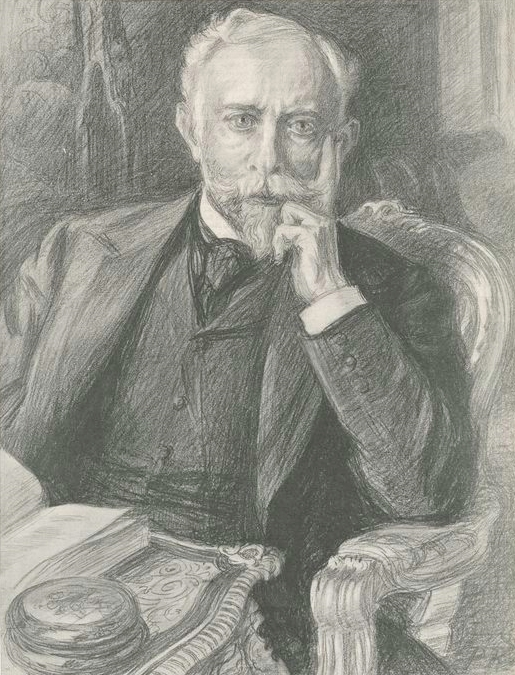 French diplomat Paul Cambon (1843-1924) by Paul Renouard (1845-1924). Original caption: "M. Paul Cambon, French Ambassador to the Court of St. James. (A sketch from life made at a special sitting by Paul Renouard)."